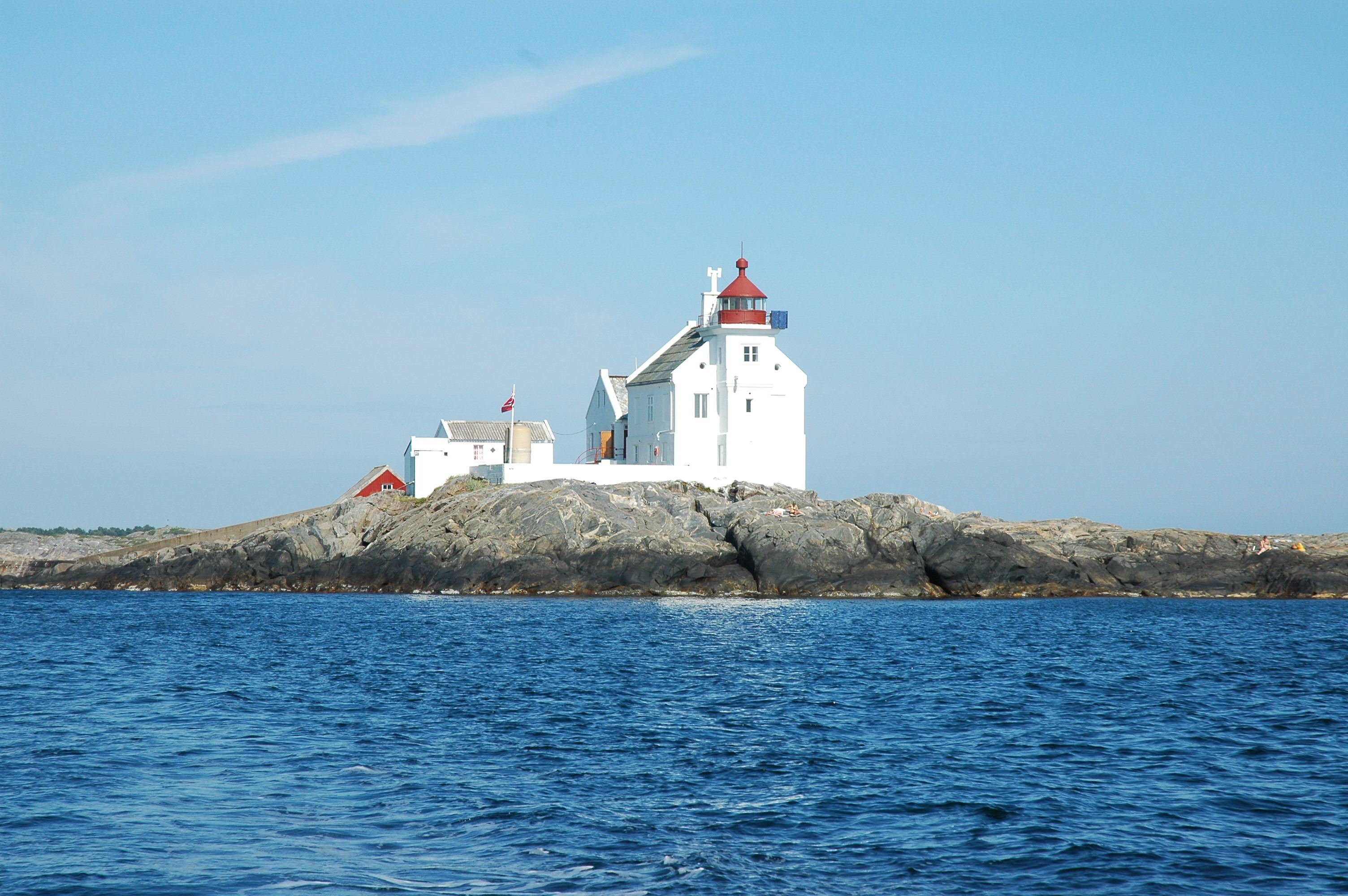 Grønningen Lighthouse, Kristiansand Norway